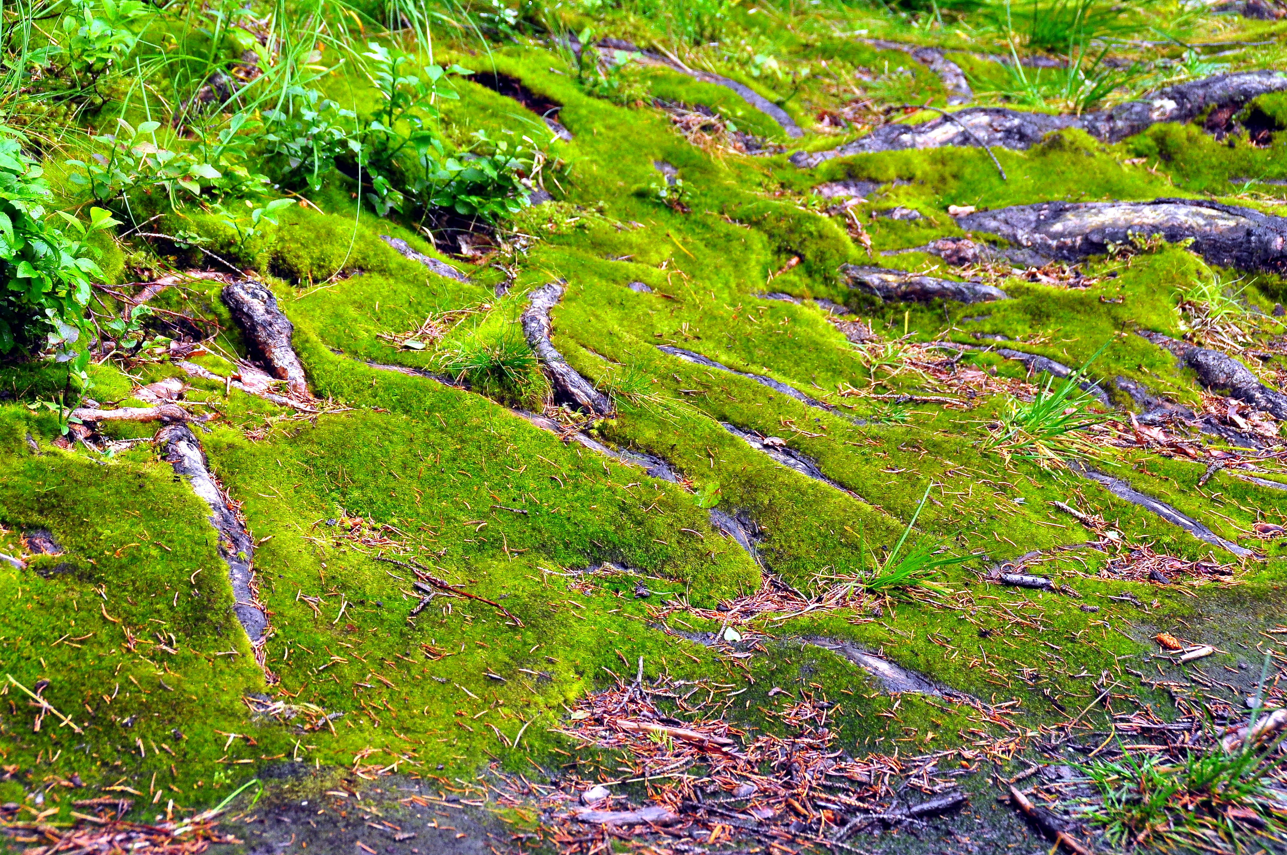 Moss-ground at the Tiebel-wellsprings on the foot-hill of the “Praekowa-mountain” in the community Himmelberg, district Feldkirchen, Carinthia, Austria